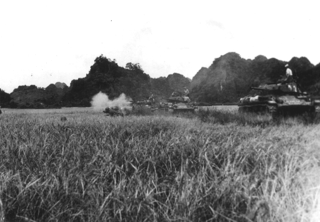 Tanks firing in support of French infantry at Dien Bien Phu.